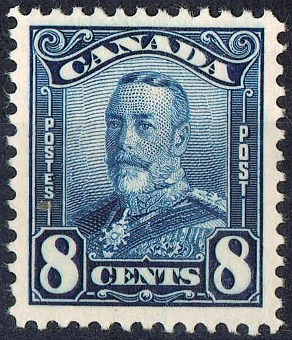 Canada Postage stamp, King George V, (Admirals) issue of 1928, 8c, deep blue